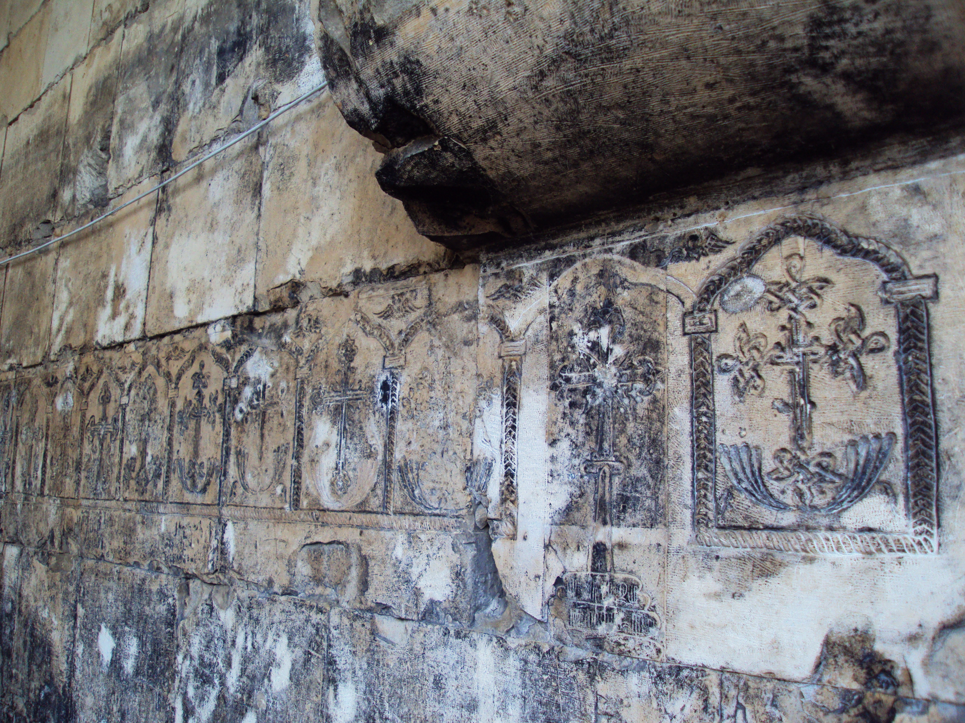 Varagavank (Seven churches or Yedikilise) monastery complex, Van province, 11c., wall ornament (2011).